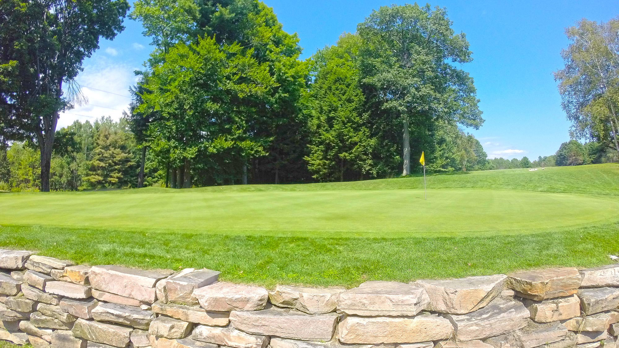 The 5th hole on the north course features a large rock wall.